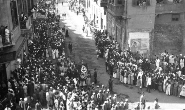 Nationalists demonstrating in Cairo. The protesters holding the Egyptian flag with Crescent, the Cross and Star of David on it